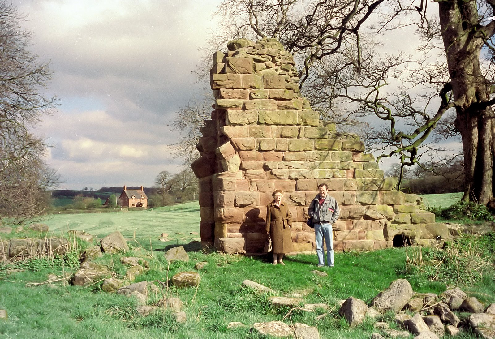 All that remains of a medieval manor house near Madeley, Staffordshire. In February 1347/8 Ralph de Stafford, 1st Earl of Stafford, was granted royal licence to crenelate his dwelling places of Stafford (Castle) and Madeley, in Staffs., to make castles of them. (GEC Complete Peerage, vol. XII, p.175). "The standing masonry has been constructed of ashlar blocks of Red Sandstone and includes part of the springing of an external round-headed doorway with portcullis groove and chamfered arch at its north end. This fragment of standing masonry is Listed Grade II and is included in the scheduling. It is thought to be the remains of the west external wall and gateway of the original stone-built house." See listed building text [1] By 1422-3 this site was referred to as the `Old Madeley Manor' and it is thought that the house had fallen into disrepair by this date. In 1540 the manor of Madeley was sold to Thomas Offley, who became the Mayor of London in 1556, and a second house was built at the site during the late 16th or early 17th century. See listed building text.